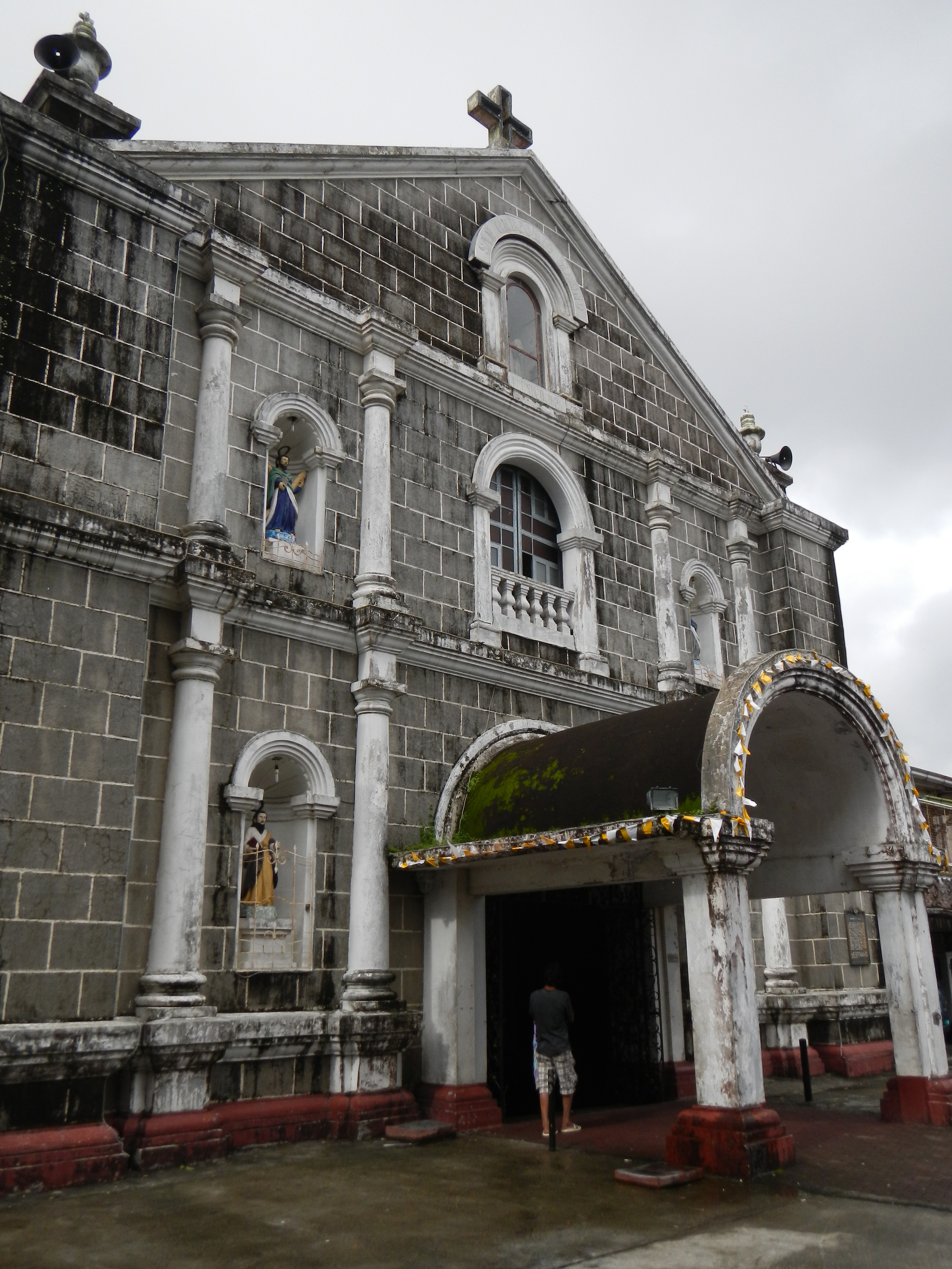 UploadWizard photos --- Saint Gregory the Great Parish Church of Indang (general description) of landmarks, heritage, culture, comprehensive, photography) of – Indang, Cavite [1] [2] Coordinates: 14°12'10"N 120°50'25"E [3] Geographical location: Cavite, Region 4, Philippines, Asia Geographical coordinates: 14° 11' 43" North, 120° 52' 37" East [4] - Barangay Poblacion Tres Mall, Covered Court, Plaza, among others in Centro, downtown, junction, crossing, Town Proper in the heart is the heritage Town hall and Plaza -- and the - Indang Plaza in front of Town Hall - are - the Bust, Monument of Severino de las Alas, member of Aguinaldo's revolutionary cabinet; List of Cabinets of the Philippines[5] May 7 - November 13, 1899 - Cavite State University main campus, approximately 70 hectares in land area was named as Don Severino delas Alas Campus, is in Indang, Cavite.[6], Indang Heroes and Martyrs, WWII Veterans Memorial, Marker, Indang, Cavite [7] and the Monuments, Markers of - Jose Mojica Y Diokno, Raymundo C. Jeciel Y Tamio, (Governors 1922–1925) who was with Aguinaldo during his retreat to Northern Luzon and former governor of Cavite, General Ambrosio R. Mojica, politico-military governor of the First Philippine Republic in Samar and Leyte, Hugo Ilagan (May 7 - November 13, 1899) First Philippine Republic[8] and Jose Elias Coronel Y Rosal, both delegates to the Revolutionary Congress in Tarlac, Tarlac.